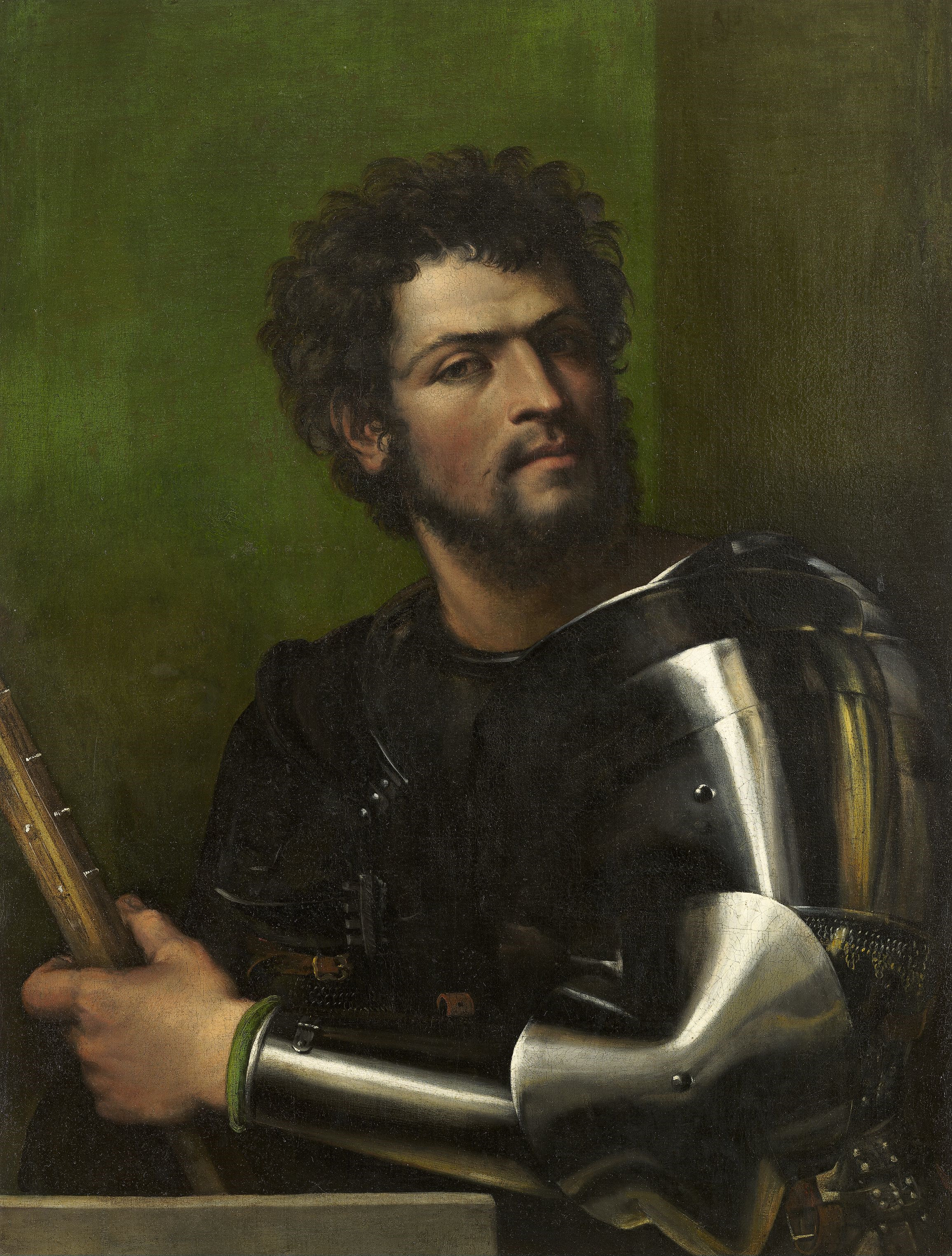 Portrait of a Man in Armor